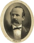 Cyrille Dion face detail from poster "The billiard monarchs", which advertised the finals of the grand national billiard tournament of 1874, for the championship of America held in Tammany Hall between contestants Albert Garnier and Maurice Vignaux.